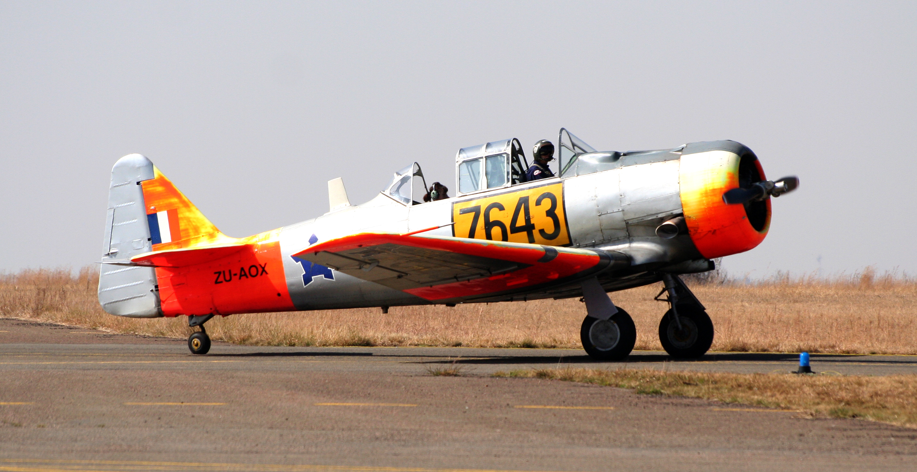 South African Air Force Museum Harvard (North America T-6 Texan) No. 7643